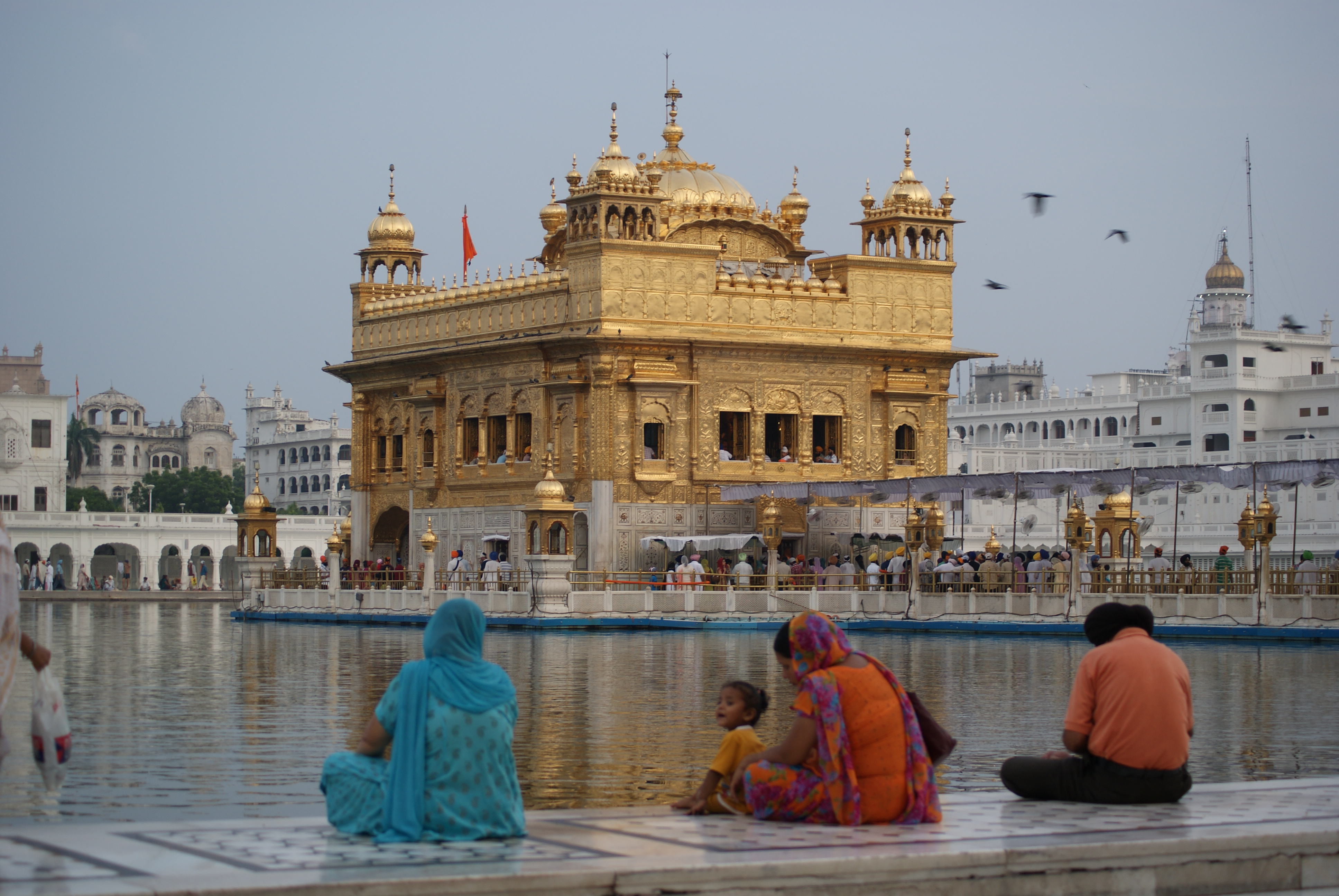 Pilgrims visit the Golden Temple, Amritsar, India